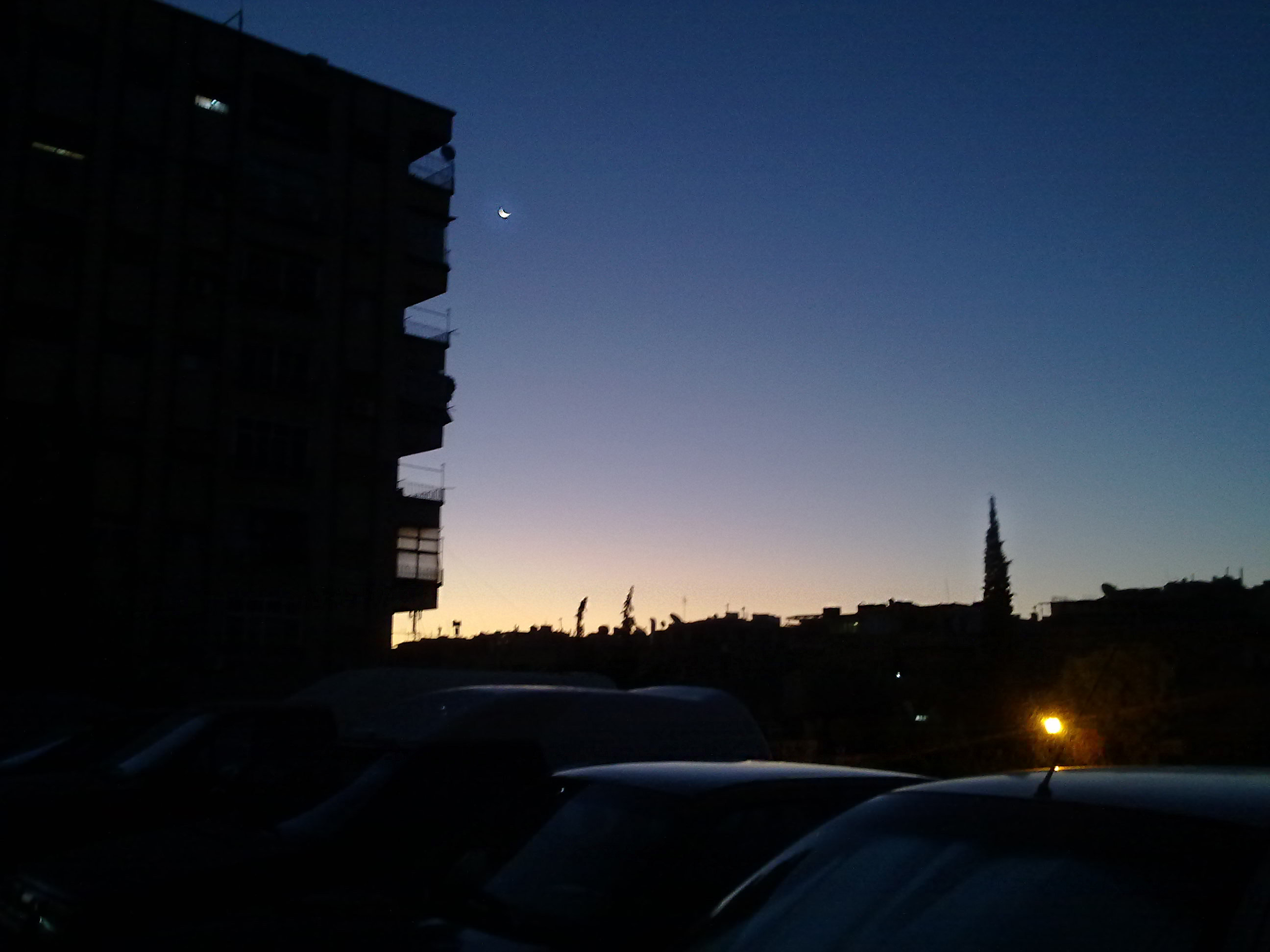 near the adam bus stop